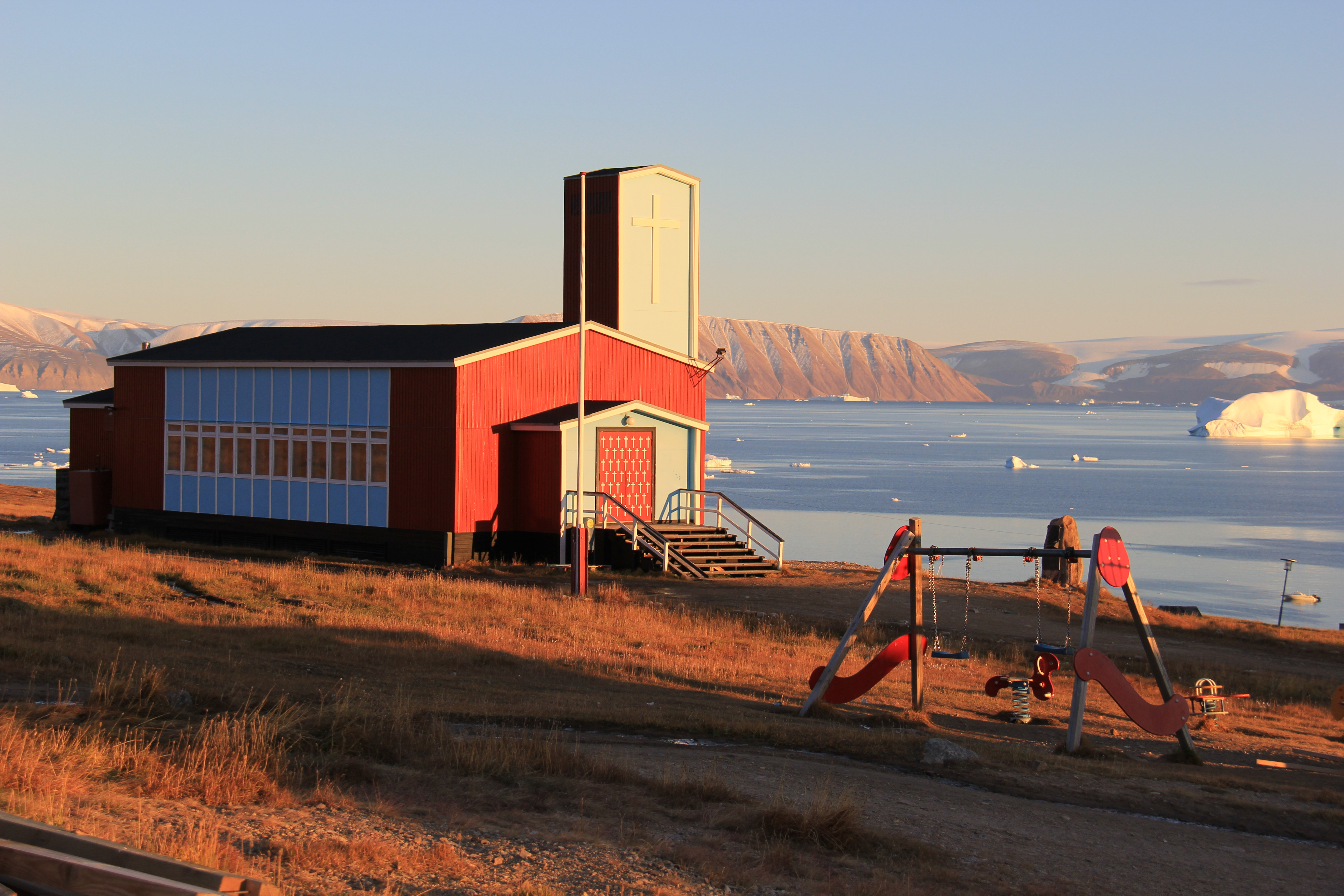 The church in Qaanaaq, 2014